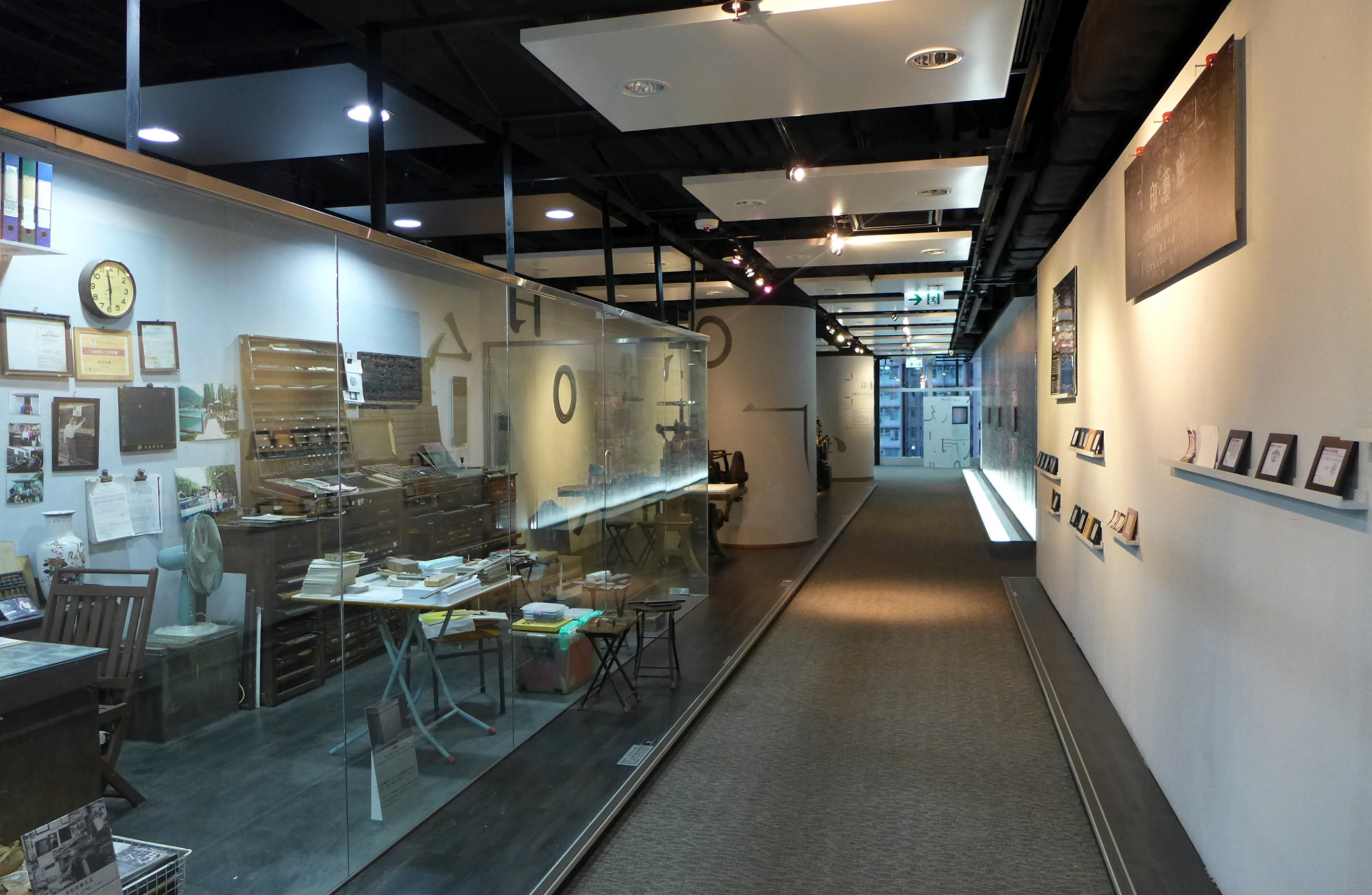 Youth Square Level 5 Gallery